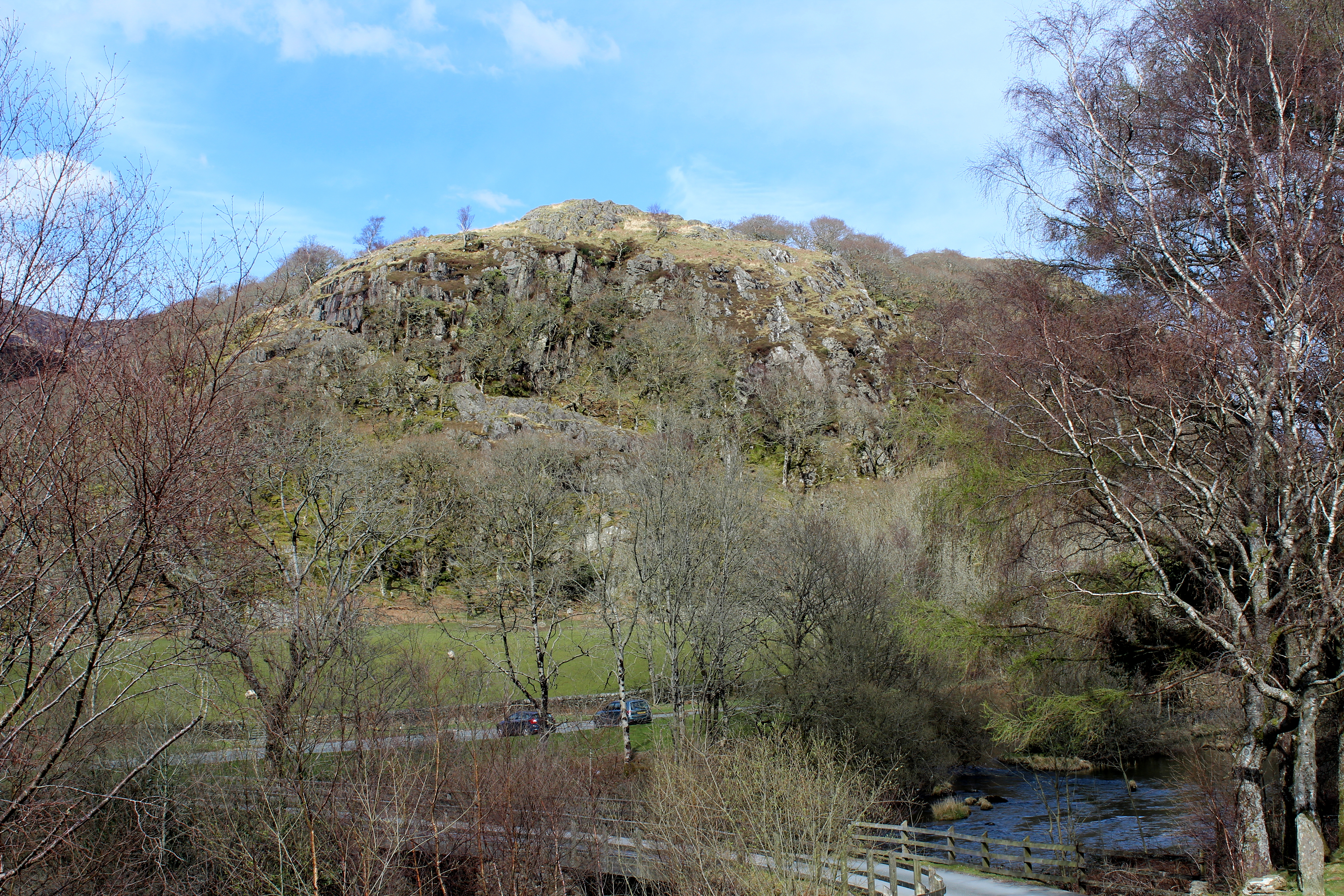 Dinas Emrys, near Beddgelert, Gwynedd, Wales, taken from the entrance to the Sygun Copper Mine. The hill is strongly associated with the legend of y Ddraig Goch, (the Welsh Red Dragon) and the Anglo-Saxon White Dragon. Archaeological excavations have revealed a 12th century fortress on the hill.[1]